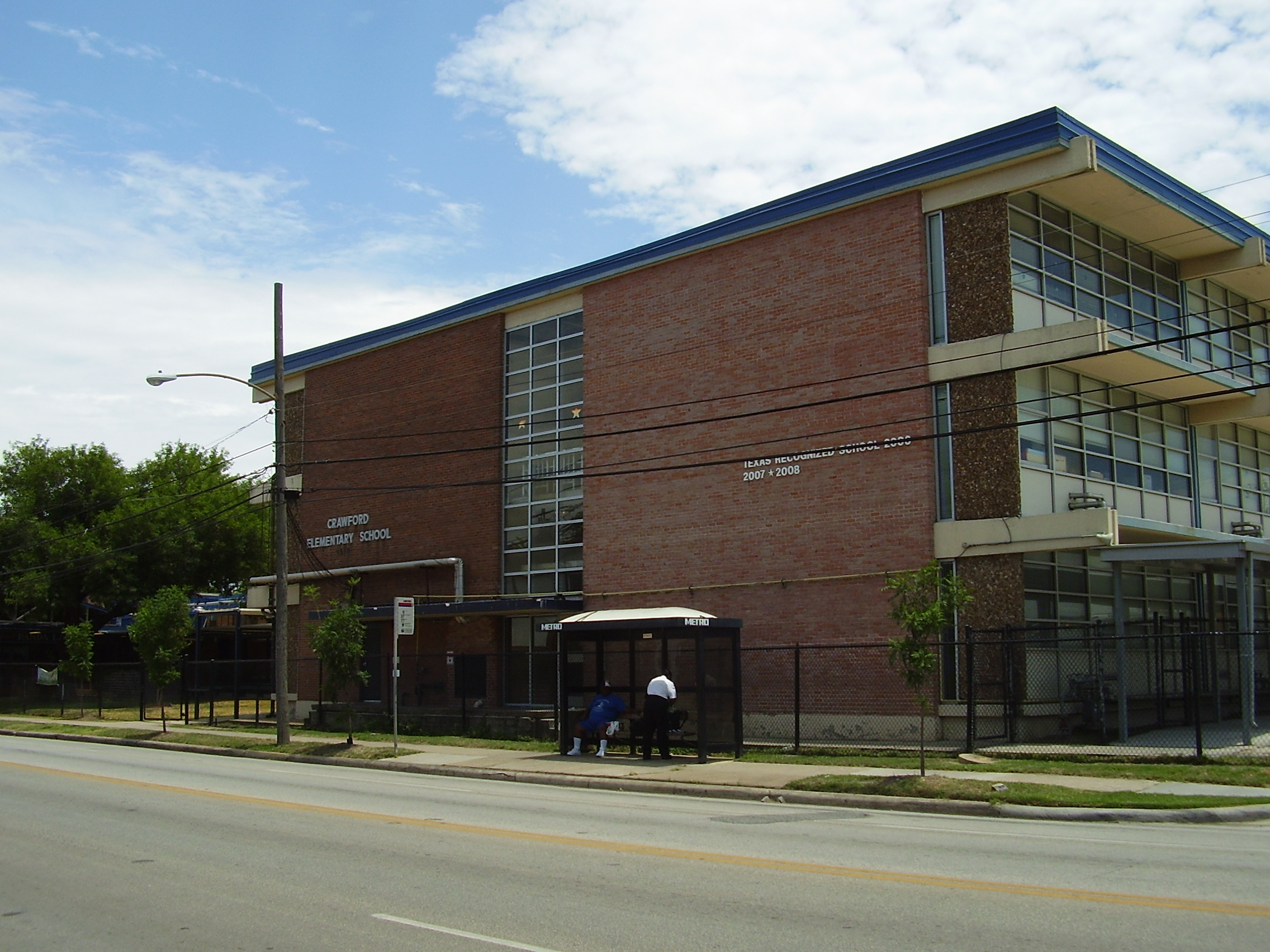 Joseph H. Crawford Elementary School